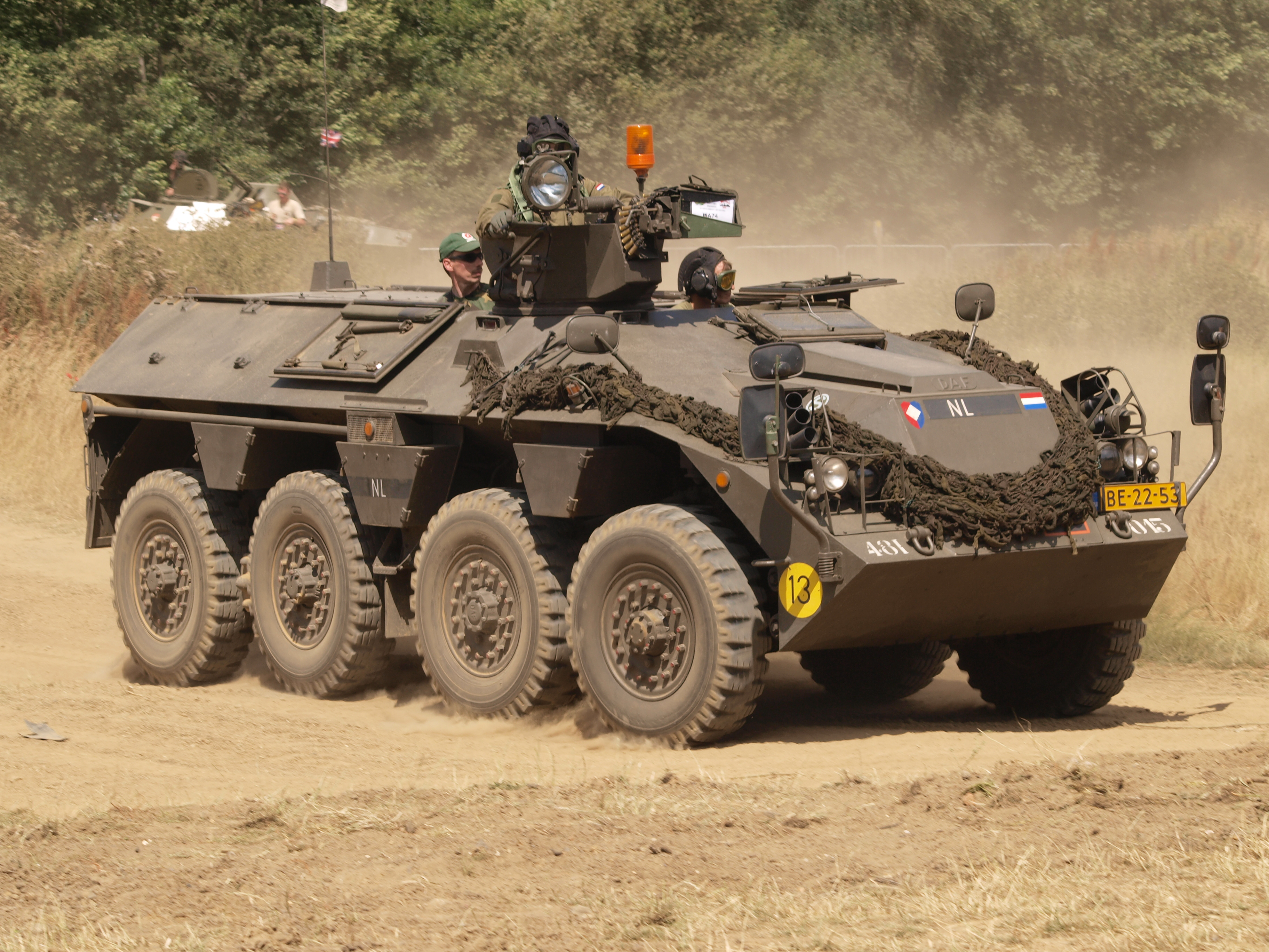 DAF YP408 (1968) owned by Timo Pronk